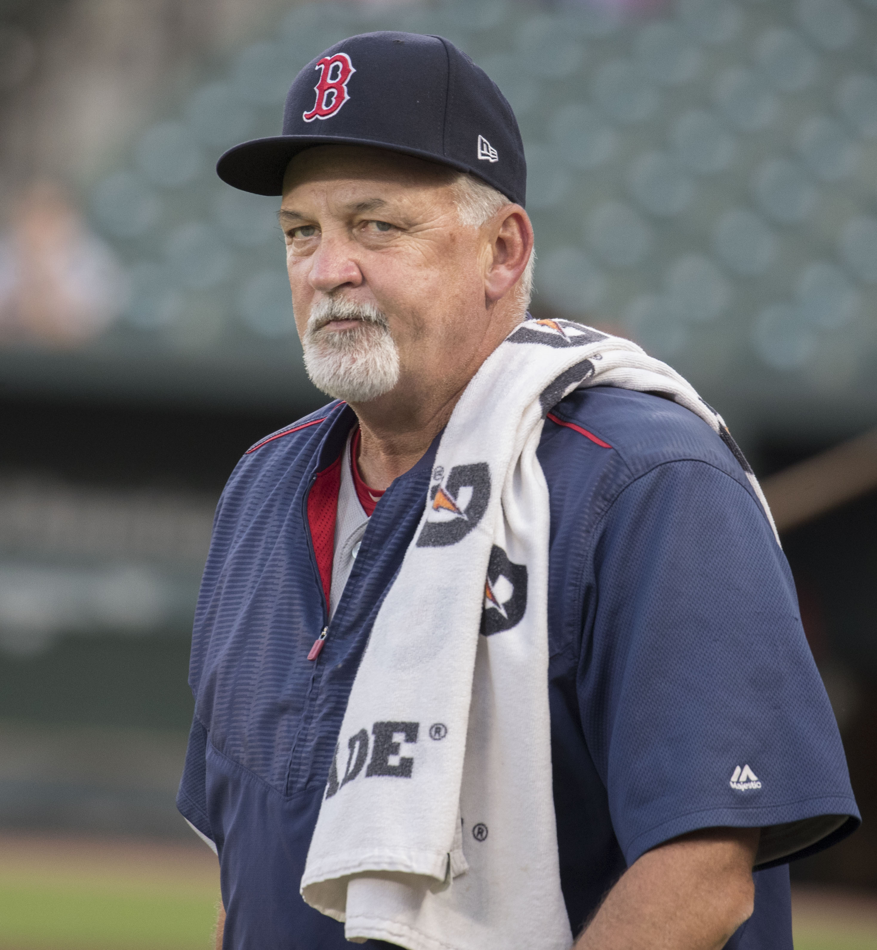 Red Sox at Orioles 9/18/17